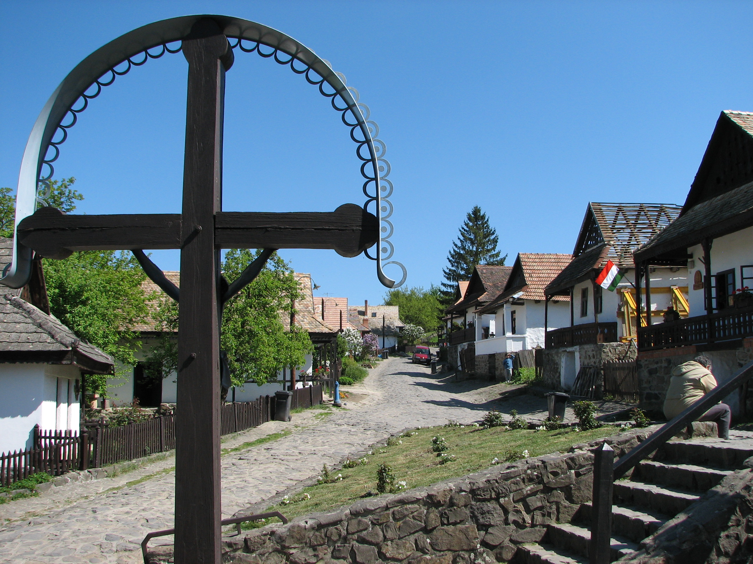 Hollókő, Hungary